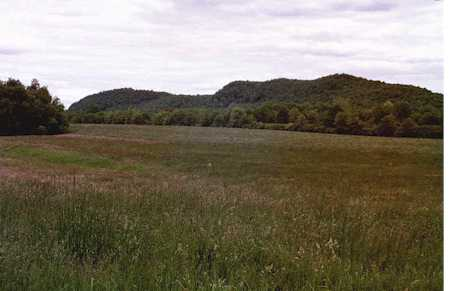 Fowler Mountain, as seen from below. Connecticut, by Paul Gagnon, 2000.